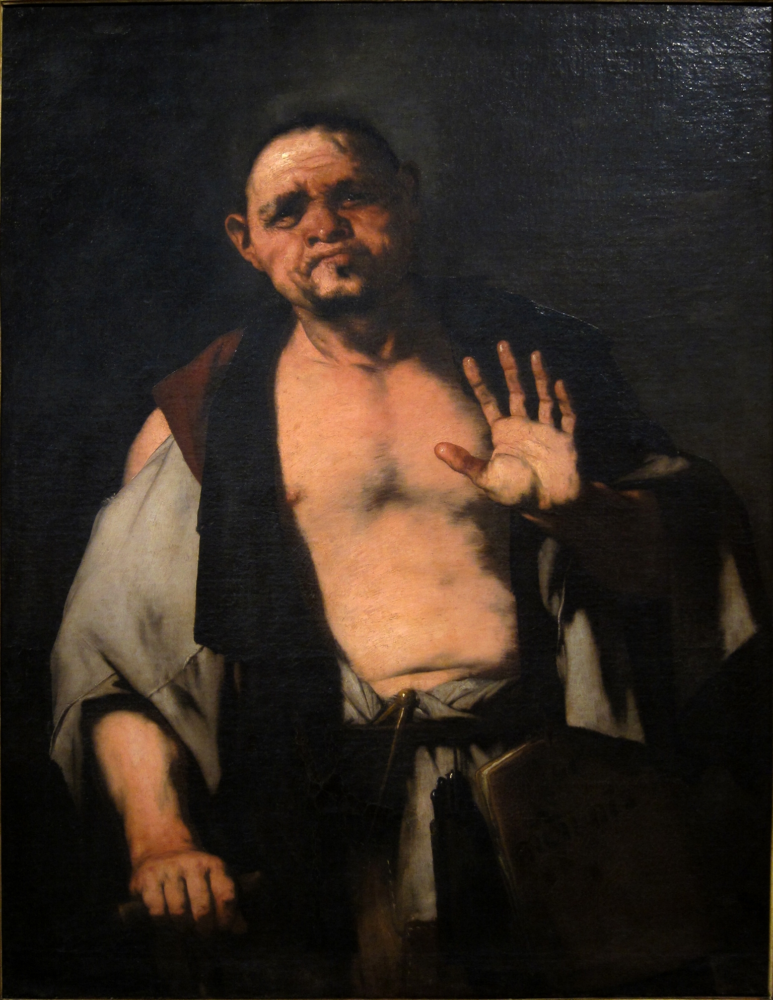 Crates